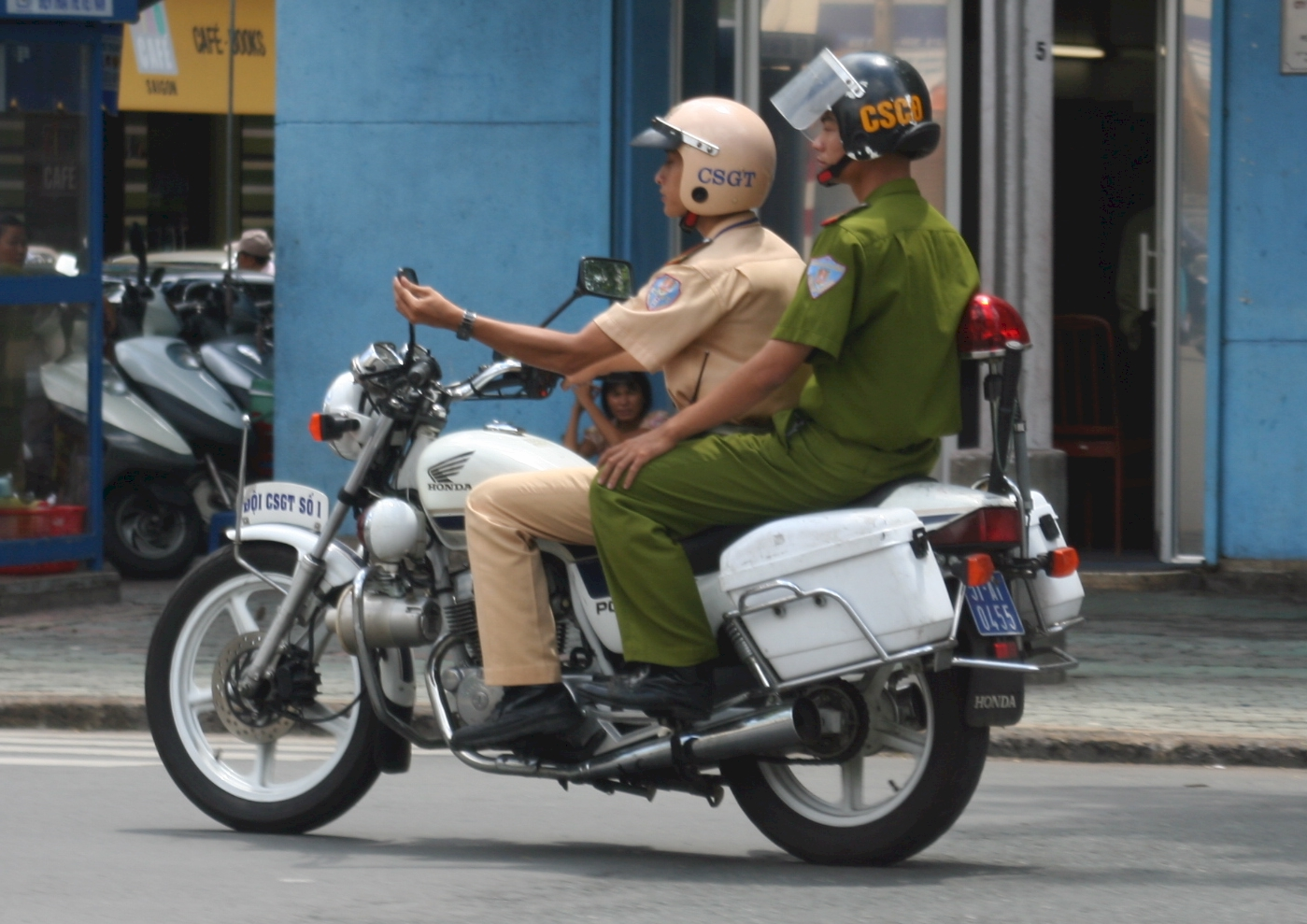 Motorcycle Police, Ho Chi Minh City, Vietnam, taken Jun 2005. Photographer Roderick Divilbiss